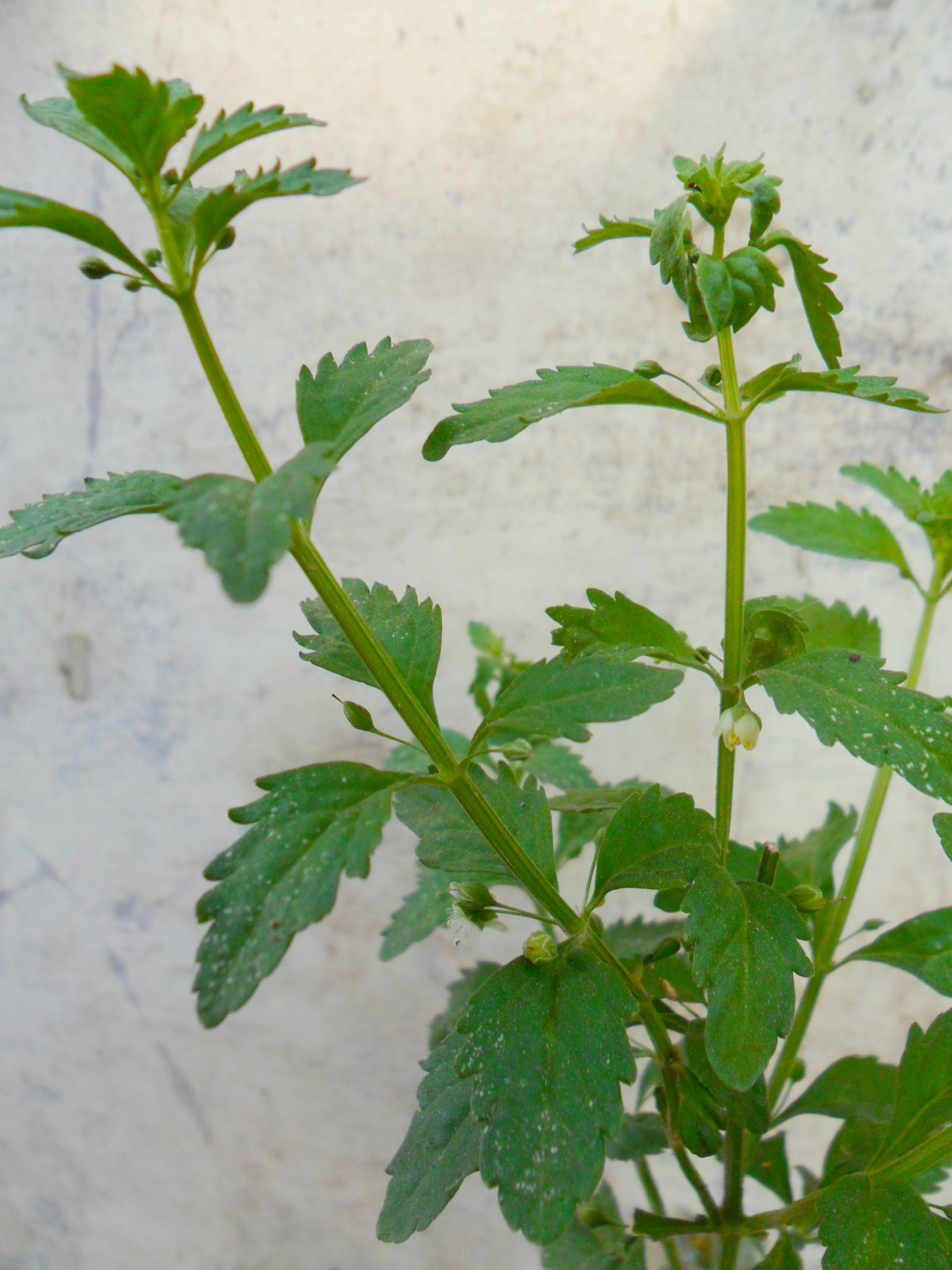 scoparia dulcis